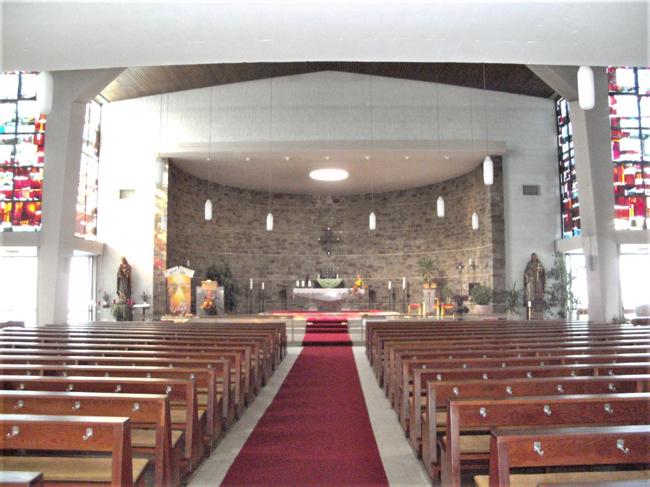 Interior of the roman catholic church in Dörsdorf, Saarland